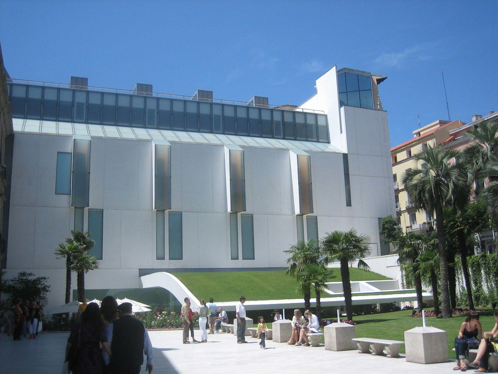 Thyssen-Bornemisza Museum in Madrid (Spain).